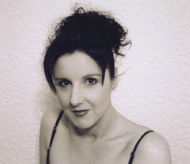 Jynine James photo 1